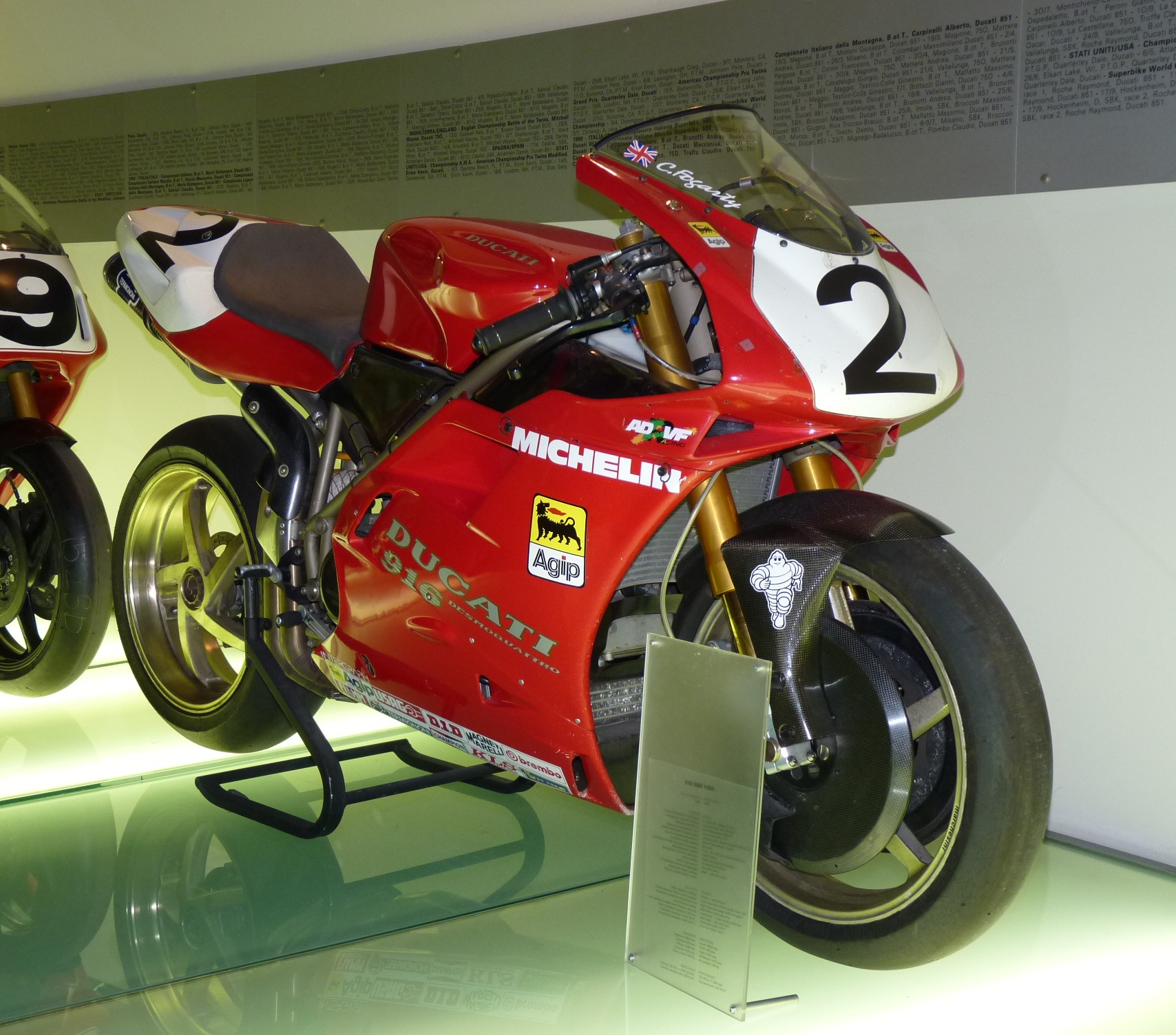 Ducati 916 SBK '94. With this bike, British pilot Carl Fogarty won the 1994 Superbike World driver's Championship. Ducati won the manufacturer's championship too. Bologna, Museo Ducati.